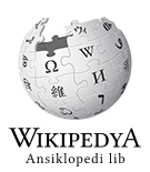 Wikipedia logo 2.0